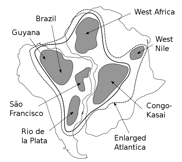 Translation of File:Atlantica-2Ga.svg